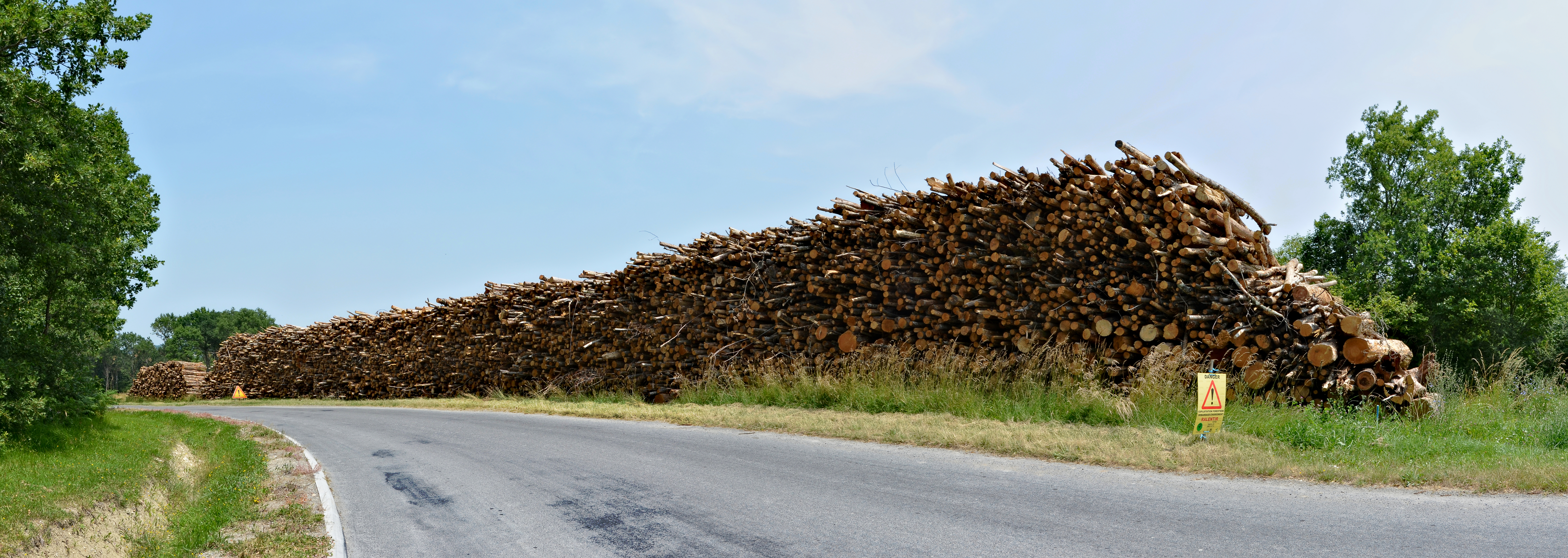 Pile of logs along road D 7, near the hamlet of Terres douces, Châtignac, Charente France.